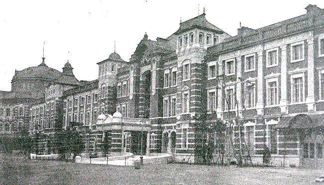 完成当時の東京駅 Original Tokyo Station Marunouchi Building — of the Tokyo Station, at completion in 1914.